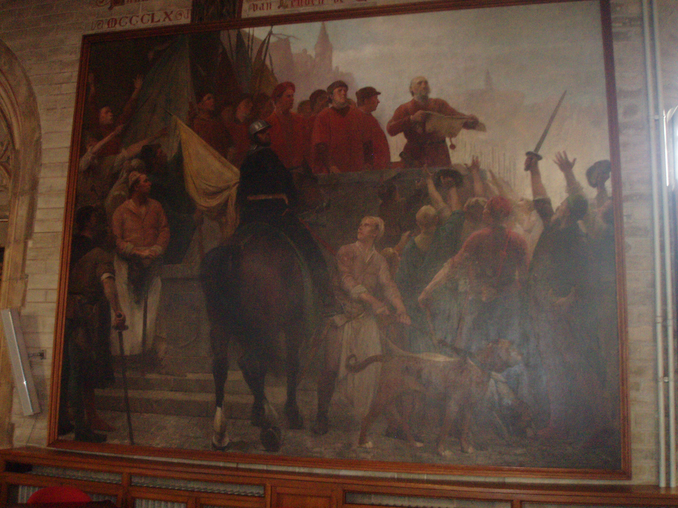 Hennebicq Pieter Coutereel